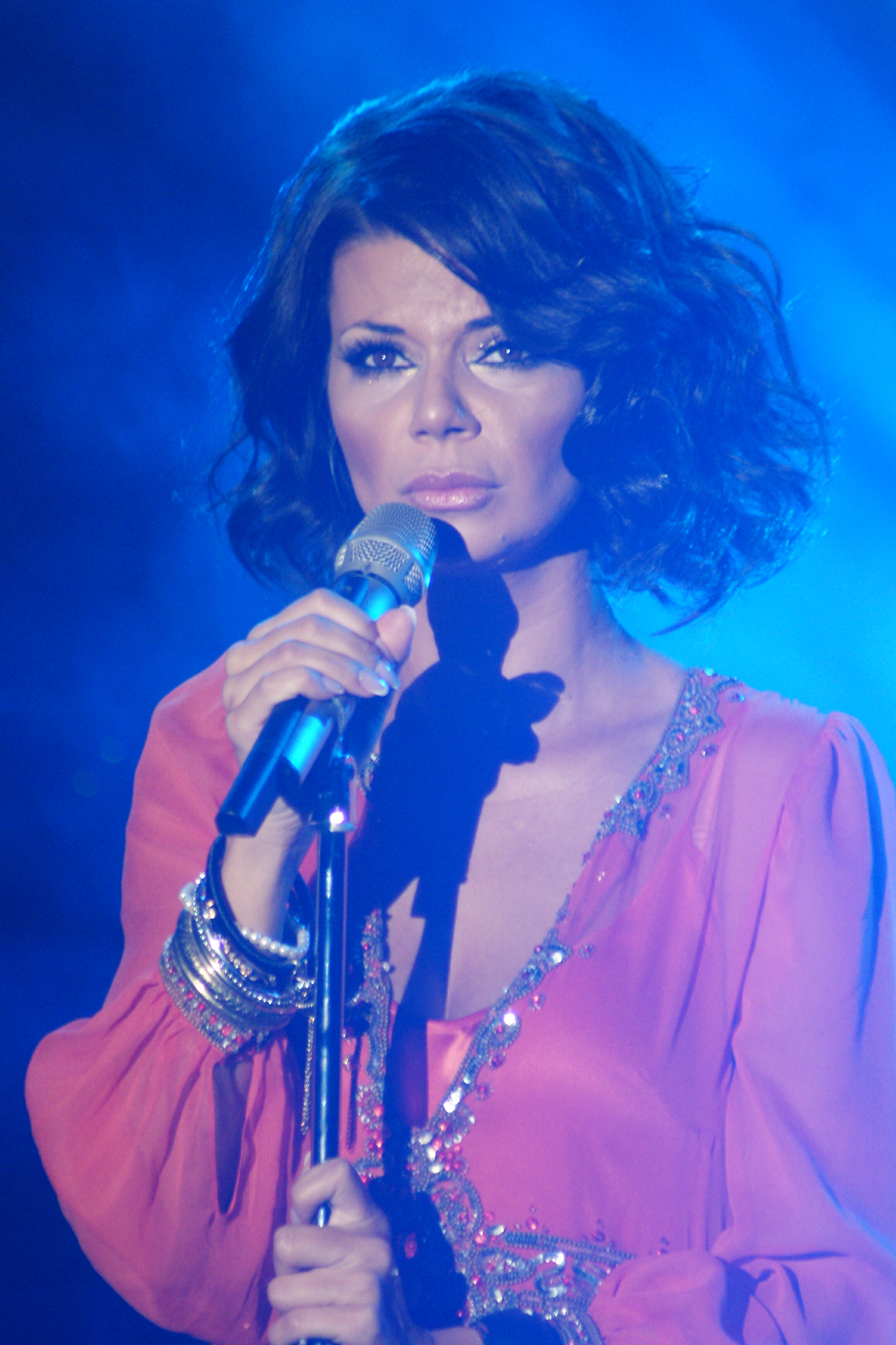 Edyta Górniak - Polish singer and musical actress in concert, 2009.